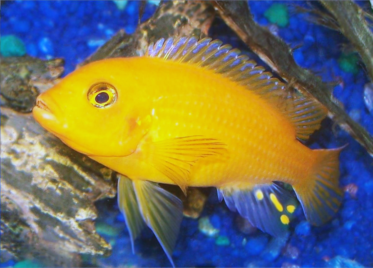 Male cichlid, most likely a Red Zebra.